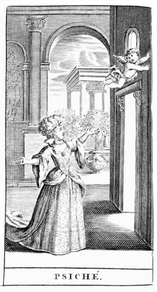 Moliere, 'Psyche', acte IV, sc. 3 Frontispiece from Les Oeuvres de Monsieur Moliere, 4 t., tome 4 (Amsterdam: Henri Wetstein, 1698)